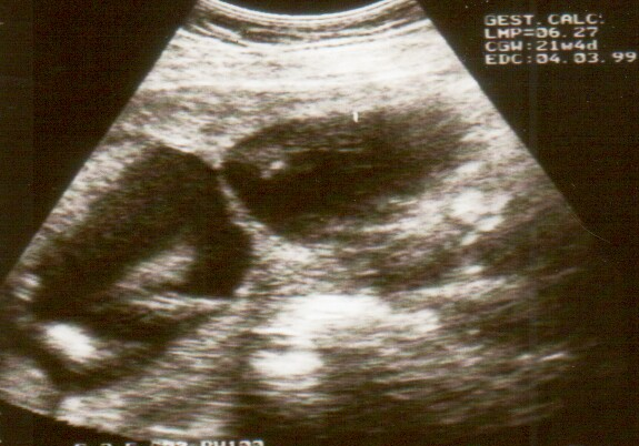 Ultrasound scan. Amniotic band. Provided as-is. Please feel free to categorise, add description, crop or rename.